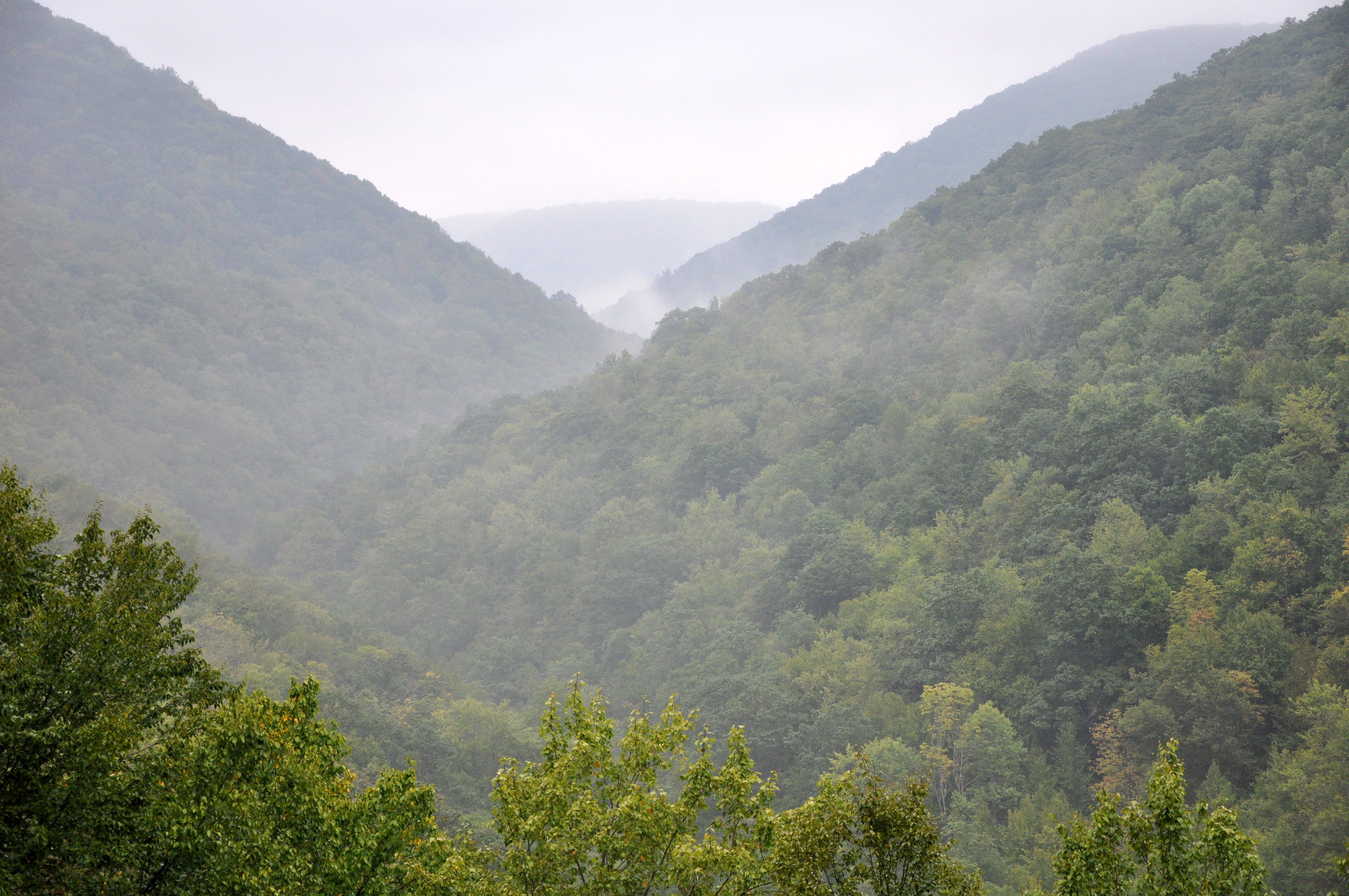 View into the Slate Run watershed from Francis Road in the U.S. state of Pennsylvania. Slate Run, flowing through the Tioga State Forest and Tiadaghton State Forest is a tributary of Pine Creek